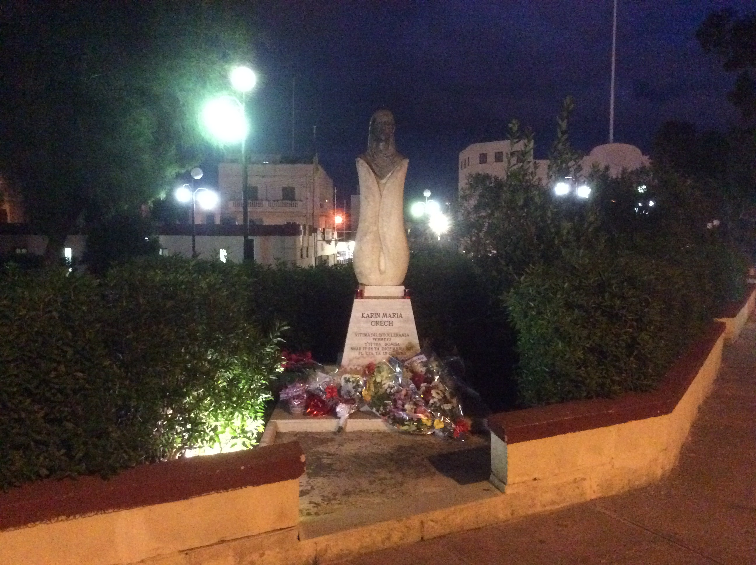 Flowers laid at the monument of Karen Maria Grech